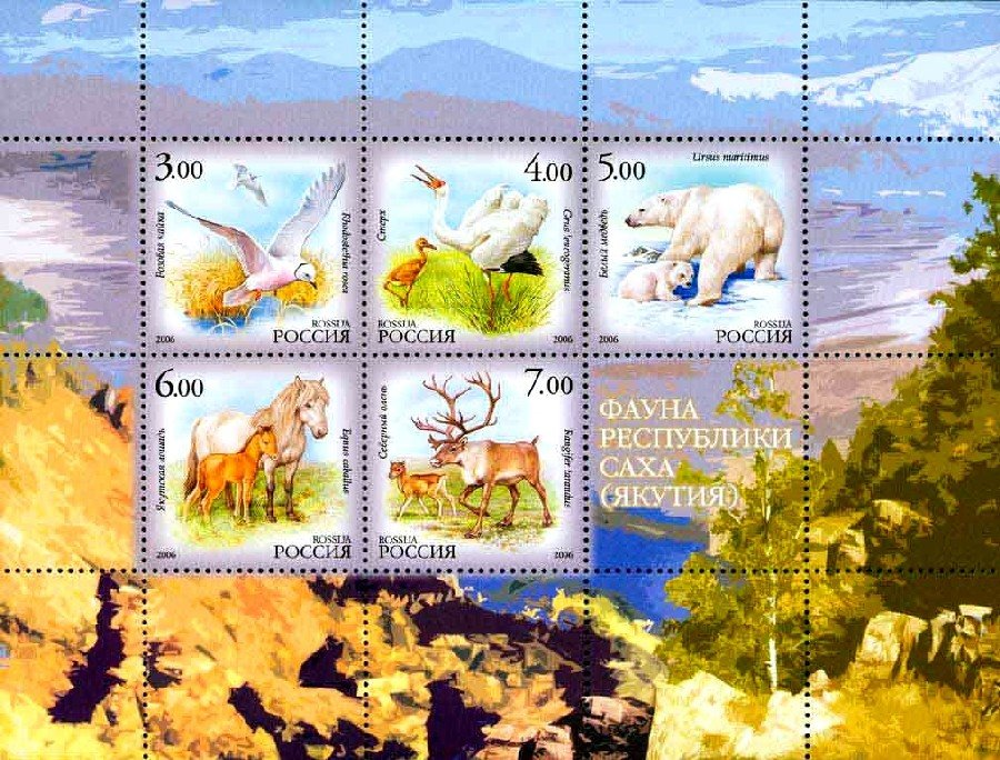 Russian post miniature sheet. 2006. Fauna of the Sakha Republic. Each stamp pictures a different animal with its baby. The animals that are pictured are: the Ross's Gull (Rhodostethia rosea) whose common name is a tribute to James Clark Ross (1800-1862) a British naval officer the Siberian crane (Grus leucogeranus) the polar bear (Ursus maritimus) the horse (Equus caballus) the reindeer (Rangifer tarandes) also called the caribou in North America